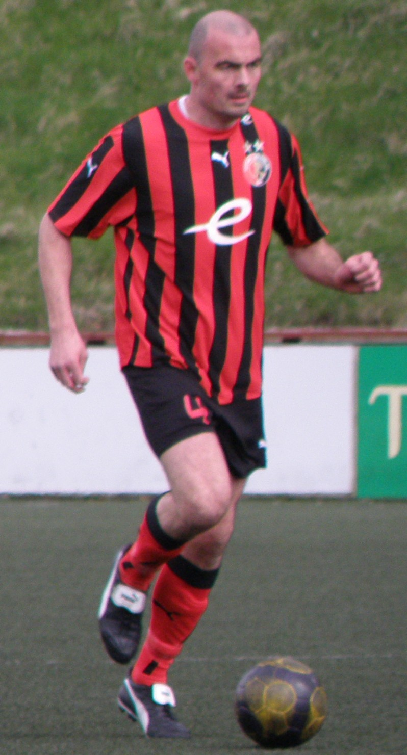 Hans á Lag is a Faroese football player, who has played with HB Tórshavn all his football career. He is also a former badminton player, who has won the national Faroese championships several times. He is also a former handball player, he played with Kyndil from Tórshavn for several years and won several medal. Hans á Lag has won the Faroese football championship several times with HB Tórshavn. He plays as a defender. This photo was taken on Eiðinum football field in Vágur on 29 May 2010 in the Vodafone match between FC Suðuroy and HB Tórshavn. HB won the match 3-0. Hans á Lag was earlier called Jacobsen (lastname). Føroyskt: Hans á Lag (fyrr Jacobsen) er føroyskur fótbóltsleikari. Hann hevur spælt við HB síðan barndómsárini. Hann spælir sum bakkur. Hans á Lag hevur fleiri ferðir vunnið meistaraheitið við HB. Fyrsti dystur hann spældi við besta liðnum hjá HB var 22. apríl 1991, tá HB spældi steypadyst móti VB. HB vann tann dystin 4-1. Henda myndin er tikin vesturi á Eiðinum í Vági í Vodafonedystinum móti FC Suðuroy. HB vann tann dystin 3-0. Hans á Lag er fjøltáttaður ítróttarmaður. Hann hevur fyrr spælt sum málmaður fyri Kyndil, har hann eisini vann meistaraheitið, og so hevur hann vunnið føroyameistaraheitið sum badmintonleikari fleiri ferðir mitt í 1990'unum.